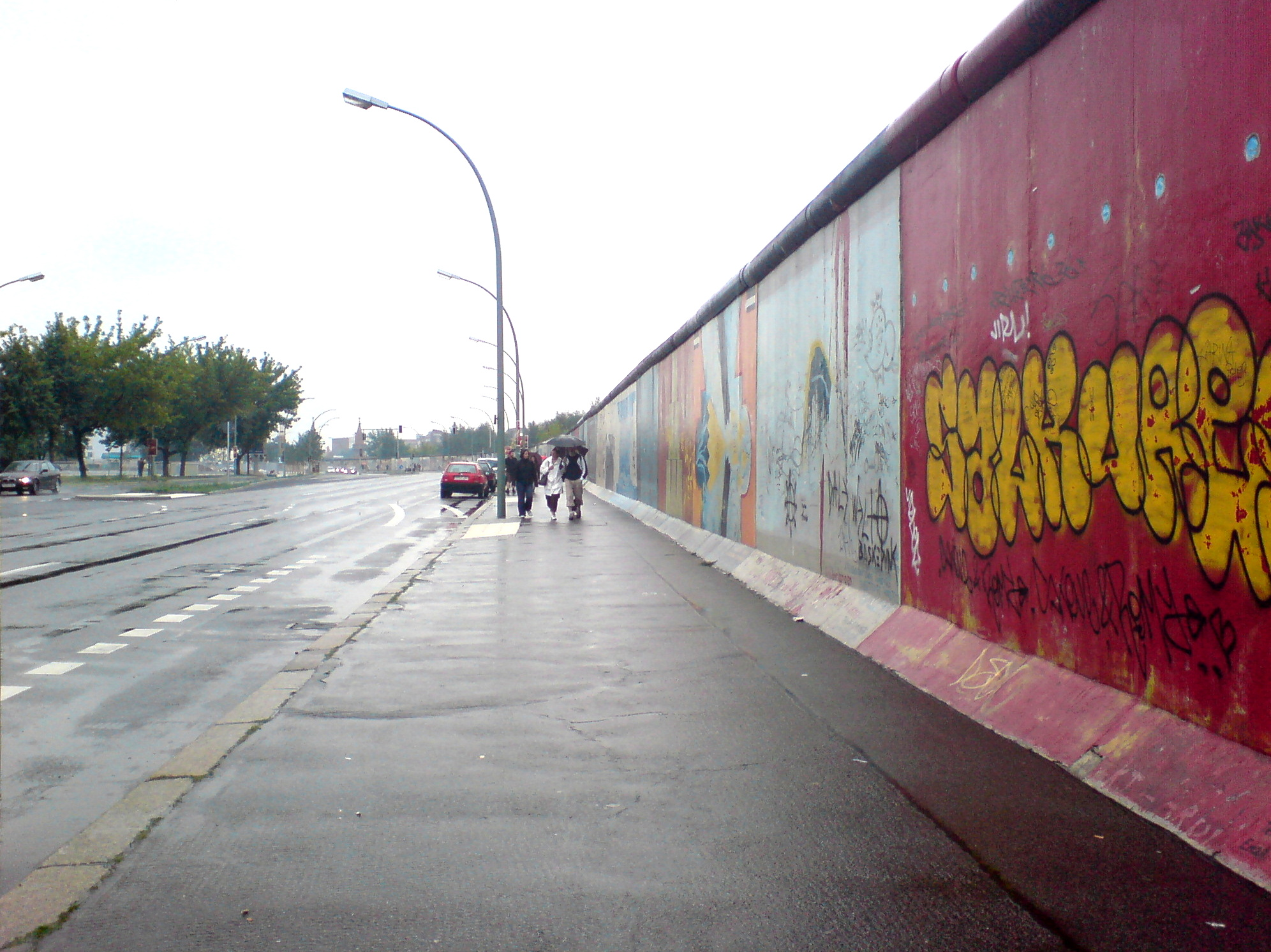 This image is of the Berlin wall being taken on 13/8/06 (Thirteenth of August 2006).